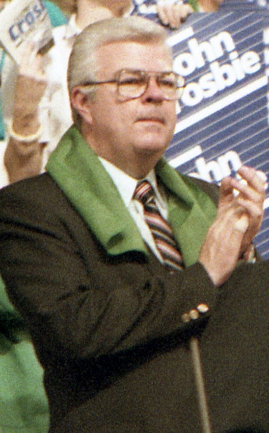 John Crosbie on floor of the Progressive Conservative leadership convention, 11 June 1983. Photo by Alasdair Roberts.